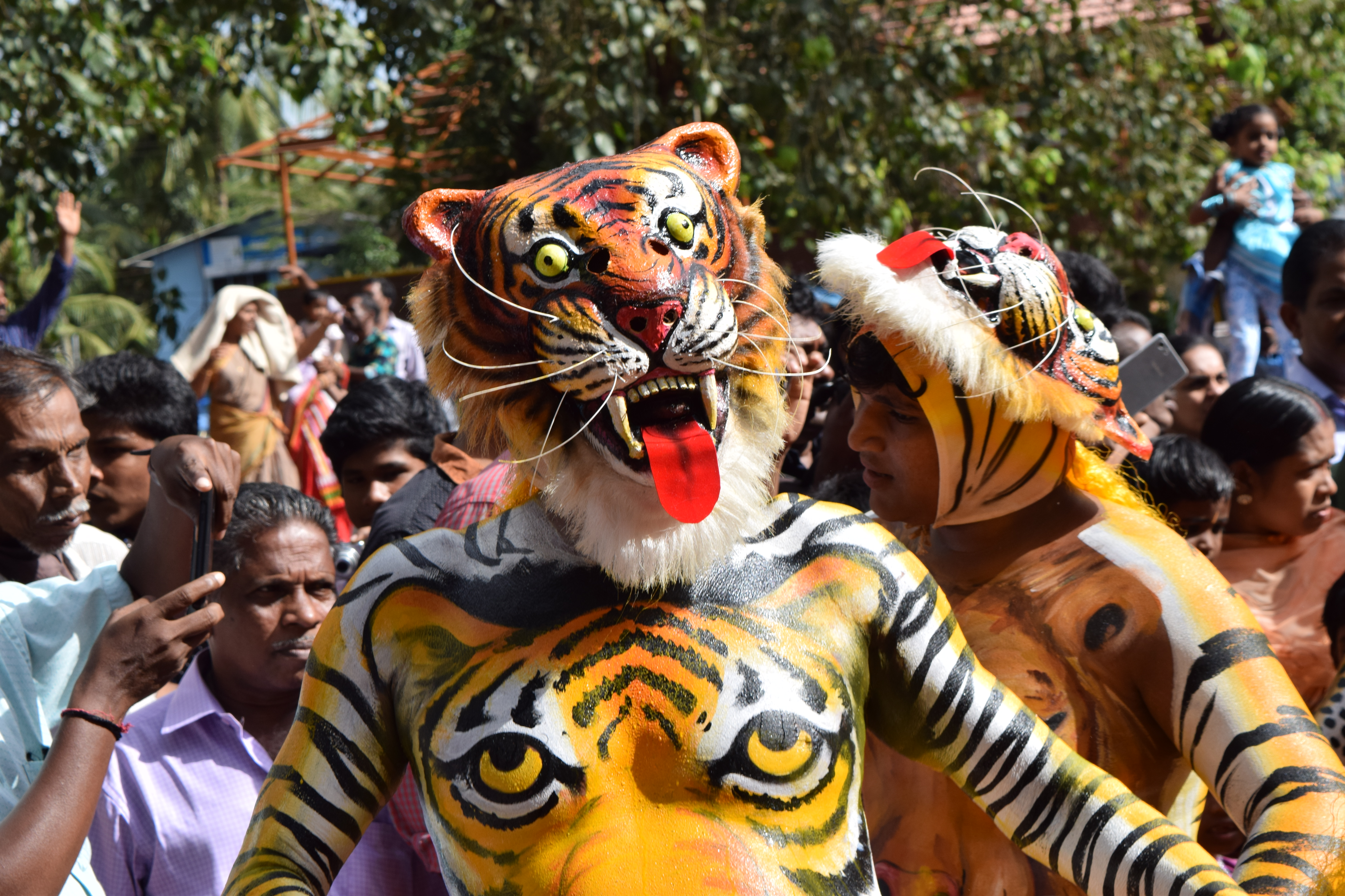 Pulikali Viyyur Desom Thrissur, Kerala.